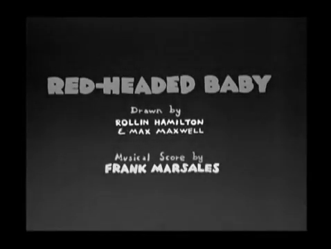 This is the title card of the Merrie Melodies cartoon Red-Headed Baby